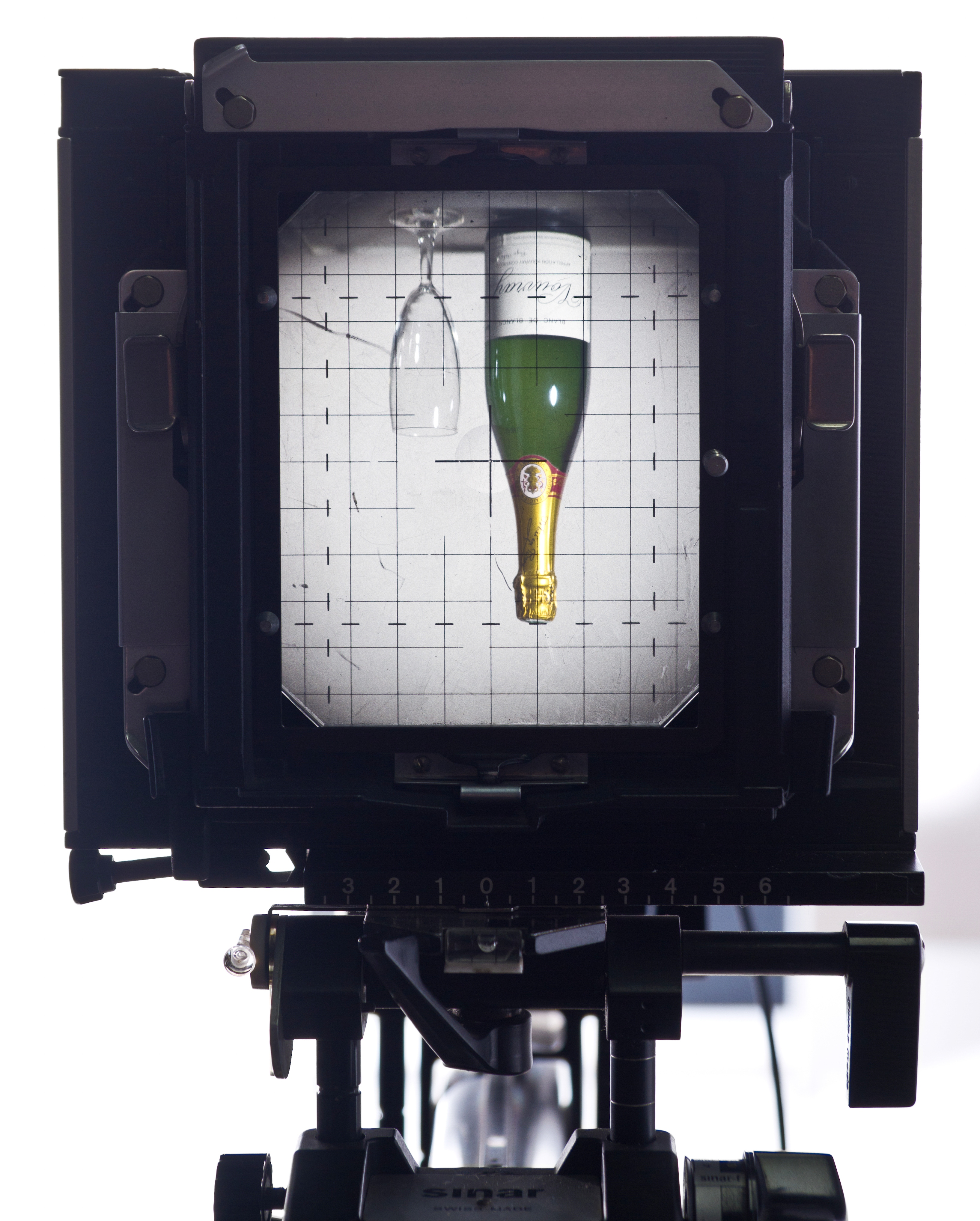 Viewing through a Sinar F 4x5 large format camera. The lens is a Schneider Tele-Arton f:5.5 240mm, with Compur shutter (fully open here), mounted on a Linhof Technika plate.